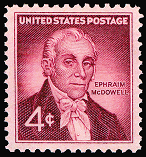 A U.S. postage stamp featuring Dr. Ephriam McDowell. It was issued December 30, 1959 to commemorate the 150th anniversary of Dr. McDowell performing the world's first ovariotomy